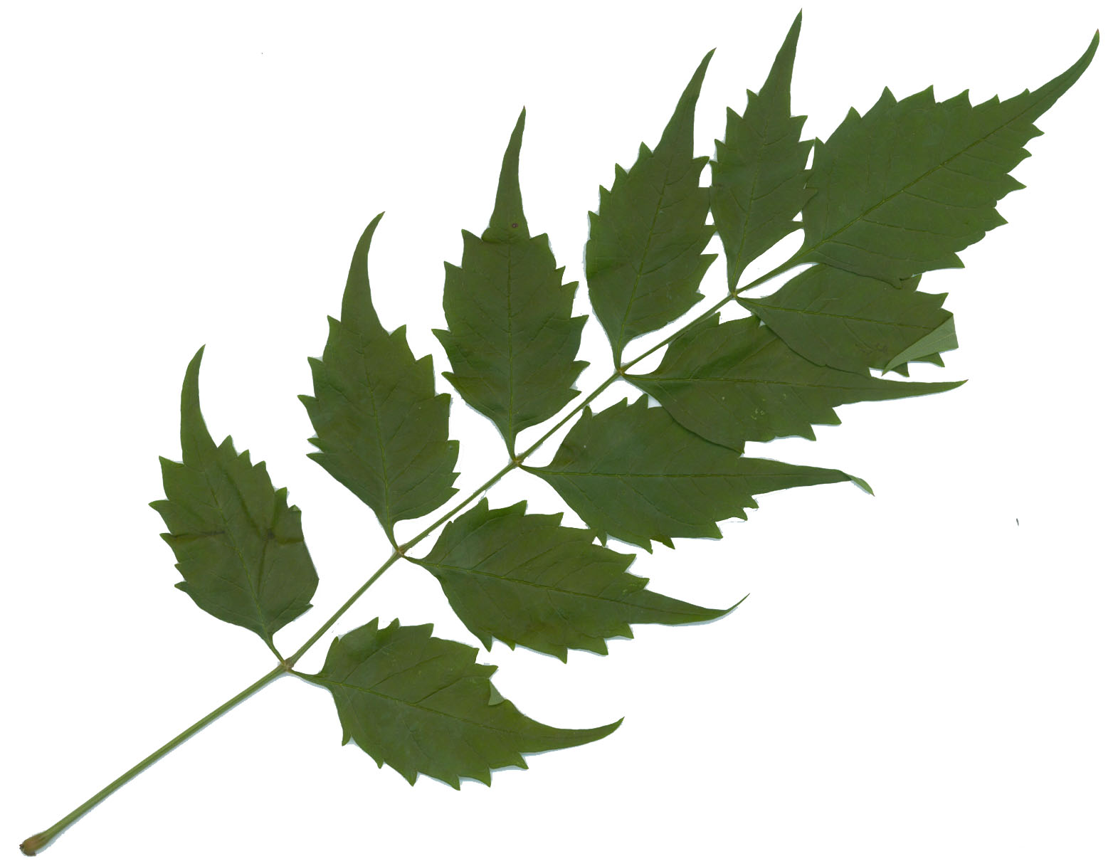 Leaf of Trumpet Creeper Campsis radicans, leaf taken from vine at Strouds Run State Park, Athens, Ohio